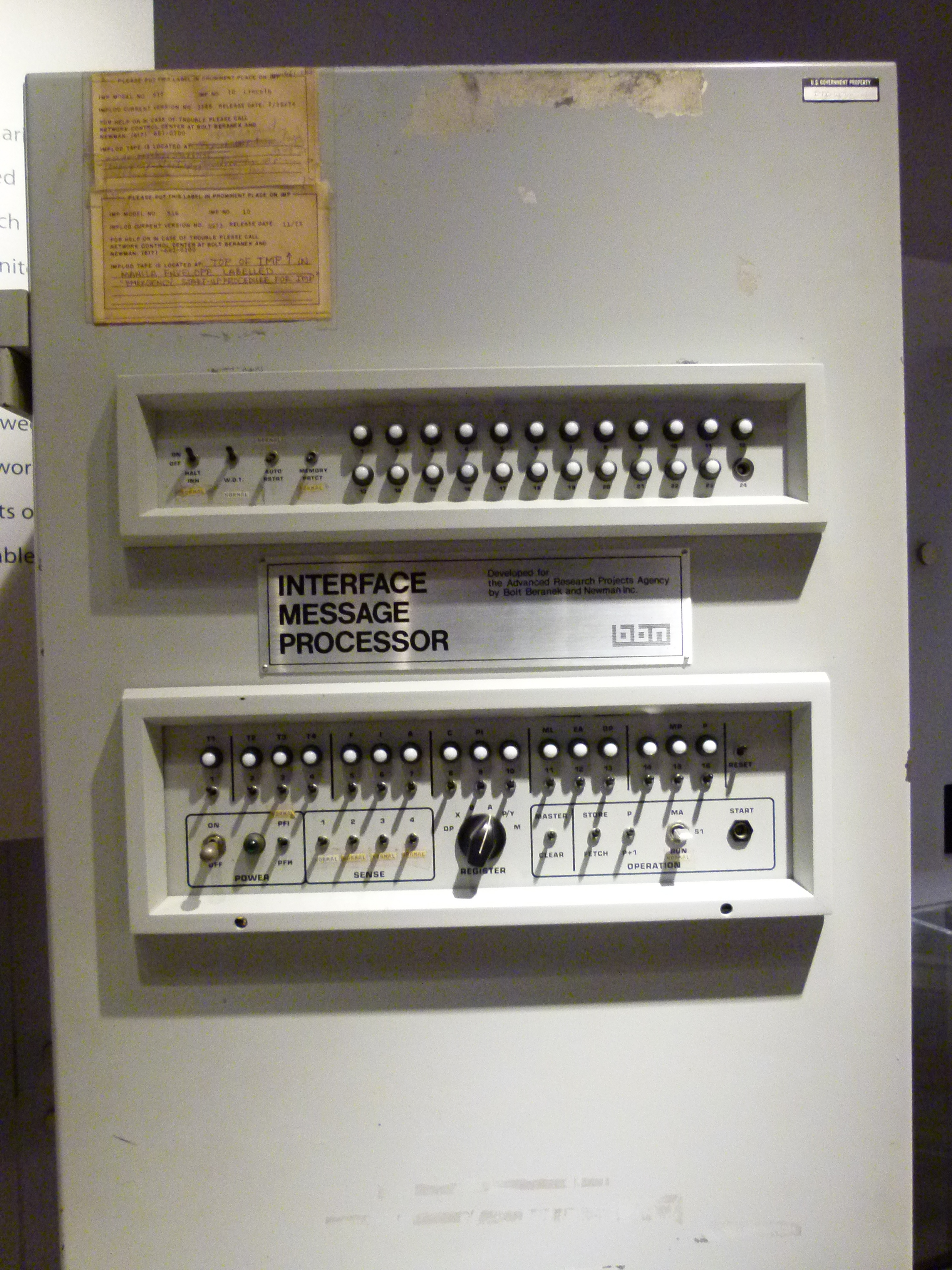 Interface Message Processor (IMP) shown at the Computer Histoy Museum